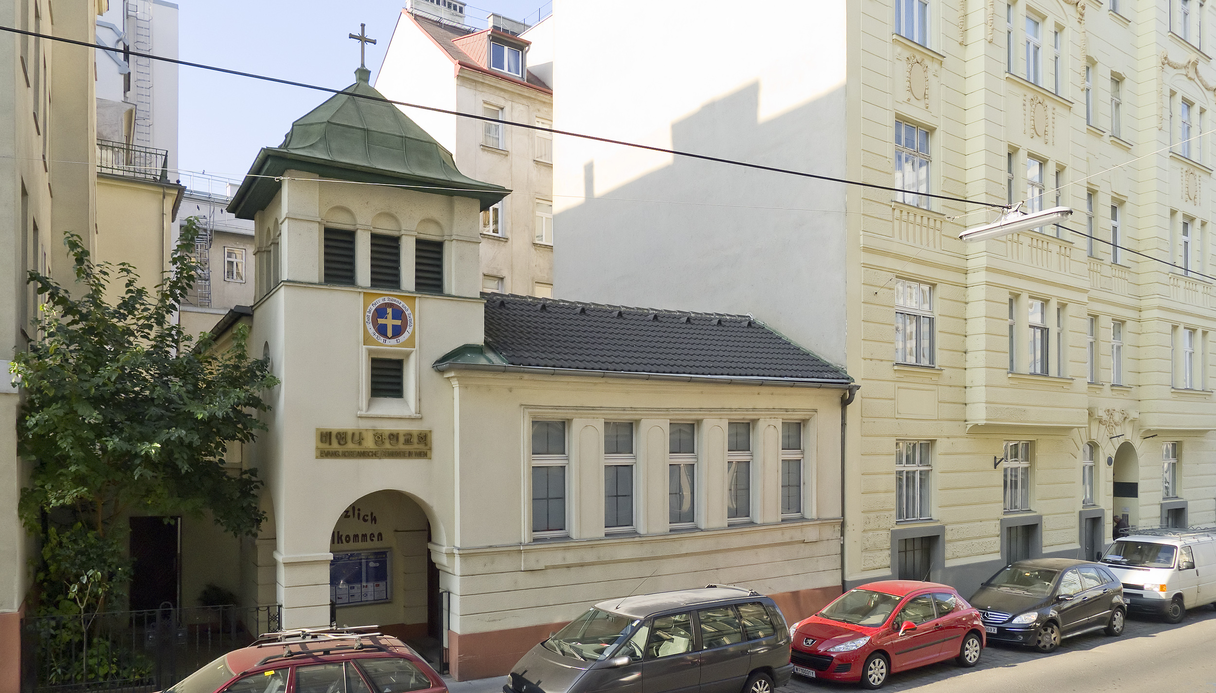 Church Evangelische Paul-Gerhardt-Kirche in Vienna 3